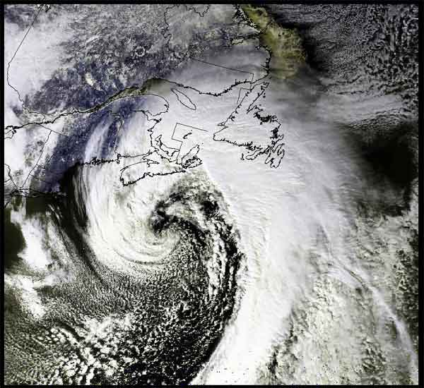 An image of the winter storm White Juan (17 to 20 February 2004)just before hitting Nova Scotia